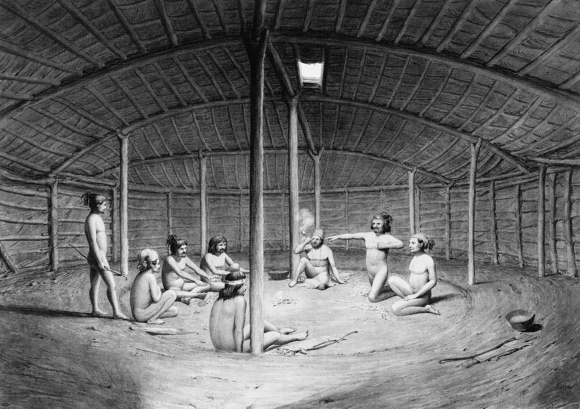 Konkow people in dance house. Original title “Chinoh Council House, Group Gambling near Munroeville, Sac. River.""